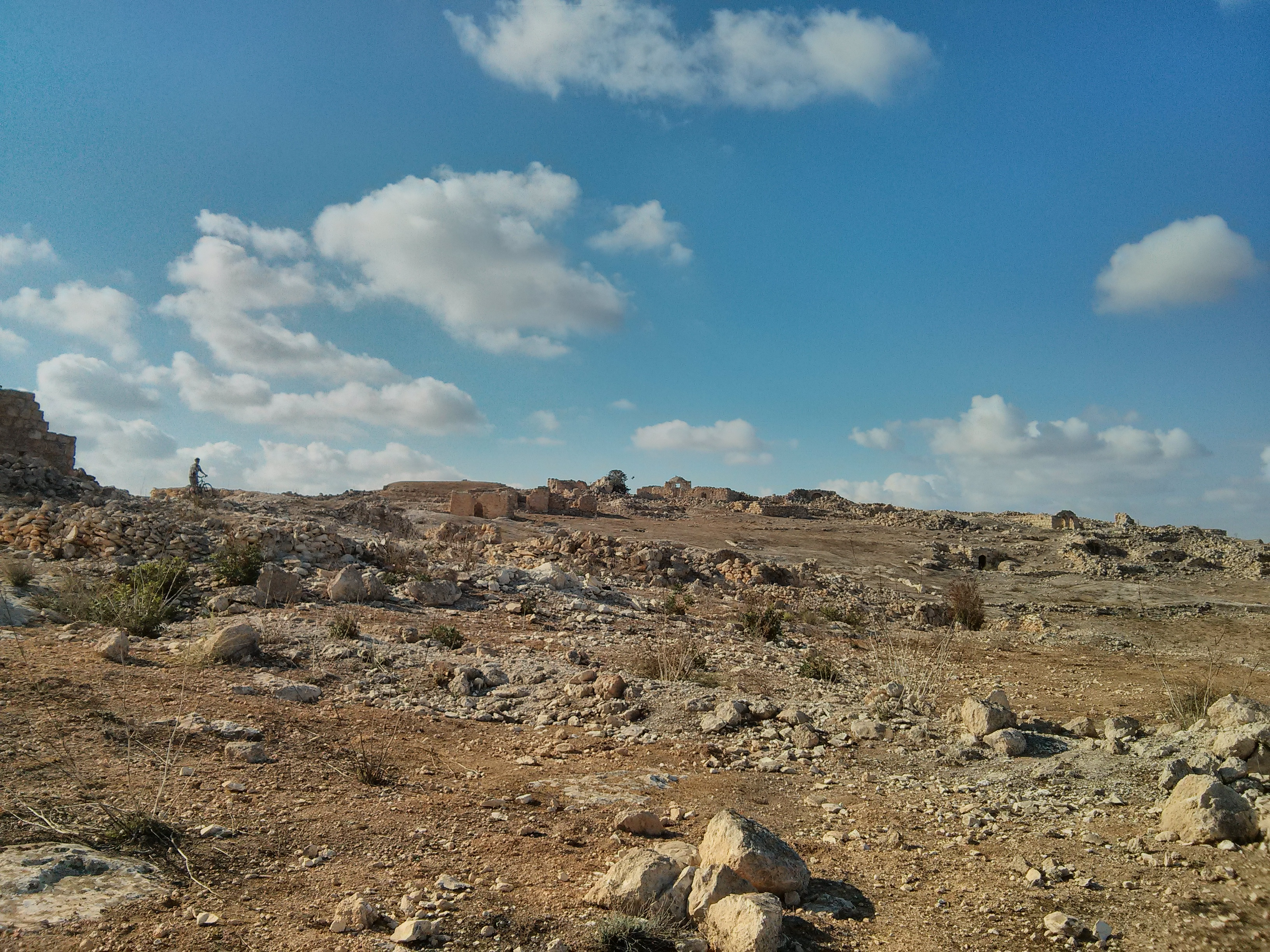 above ground buildings in hirbat El-shakaf